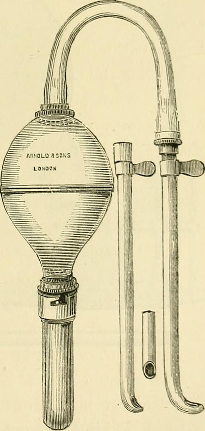 Title: The modern treatment of stone in the bladder by litholapaxy : a description of the operation and instruments with cases illustrative of the difficulties and complications met with Year: 1886 (1880s) Authors: Freyer, P. J. (Peter Johnston), Sir, 1851-1921 Subjects: Urinary Bladder Calculi Lithotripsy Publisher: London : J. & A. Churchill Text Appearing Before Image: ize from Nos. 14 to Jo. Knglisbscale, according to the capacity of the urethra. Inmy own practice 1 have not found it necessary to usea larger cannla than No. 1.8; and through ;i tube ofthis calibre I have removed the debris oi* calculiweighing 3£ ounces. I have, however, met with easesin which a No. 19 or 20 canula might have beenpassed with facility. Cairalse are made of thin silver,and vary in shape, some being straight, and someslightly curved at the extremity (Figs. 6, 7, 10). Thelatter I prefer, as I find themmore easy of introduction.The orifice, or eye, should belarge enough to admit anyfragment that will passthrough the tube. Though the evacuatingcatheters remain much thesame now as on their intro-duction by the distinguishedoriginator, several modifica-tions have been effected inthe aspirator; and these Ishall now describe, indicat-ing the varieties of aspira-tor that I have found mosteffective. The original aspirator ofBigelow, with curved canulaattached, is represented in Text Appearing After Image: 1ST. 6. Fig. 6. It consists ot 1G INSTRUMENTS EMPLOYED IN LITHOLAPAXY. of an elastic bulb, or central portion, to the lowerextremity of which is attached a removable cylindricalglass-receiver; whilst from its upper part passes anindia-rubber tube, the end of which fits on to theevacuating catheter previously introduced into thebladder. The apparatus, previously filled with water